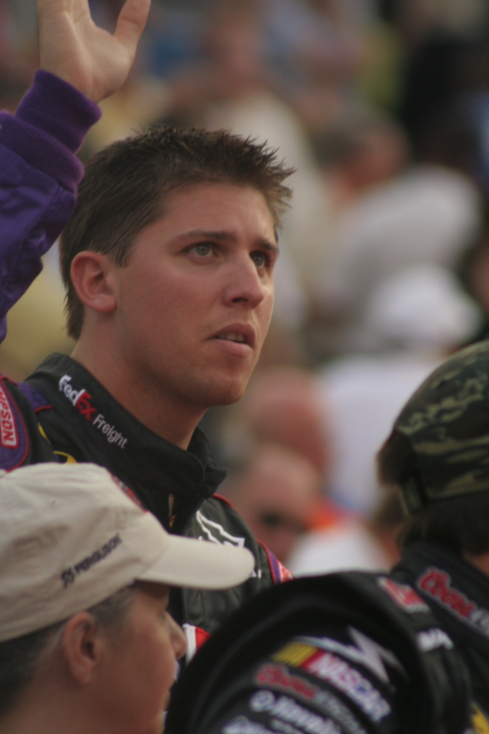 NASCAR driver Denny Hamlin in August 2007 at Bristol Motor Speedway